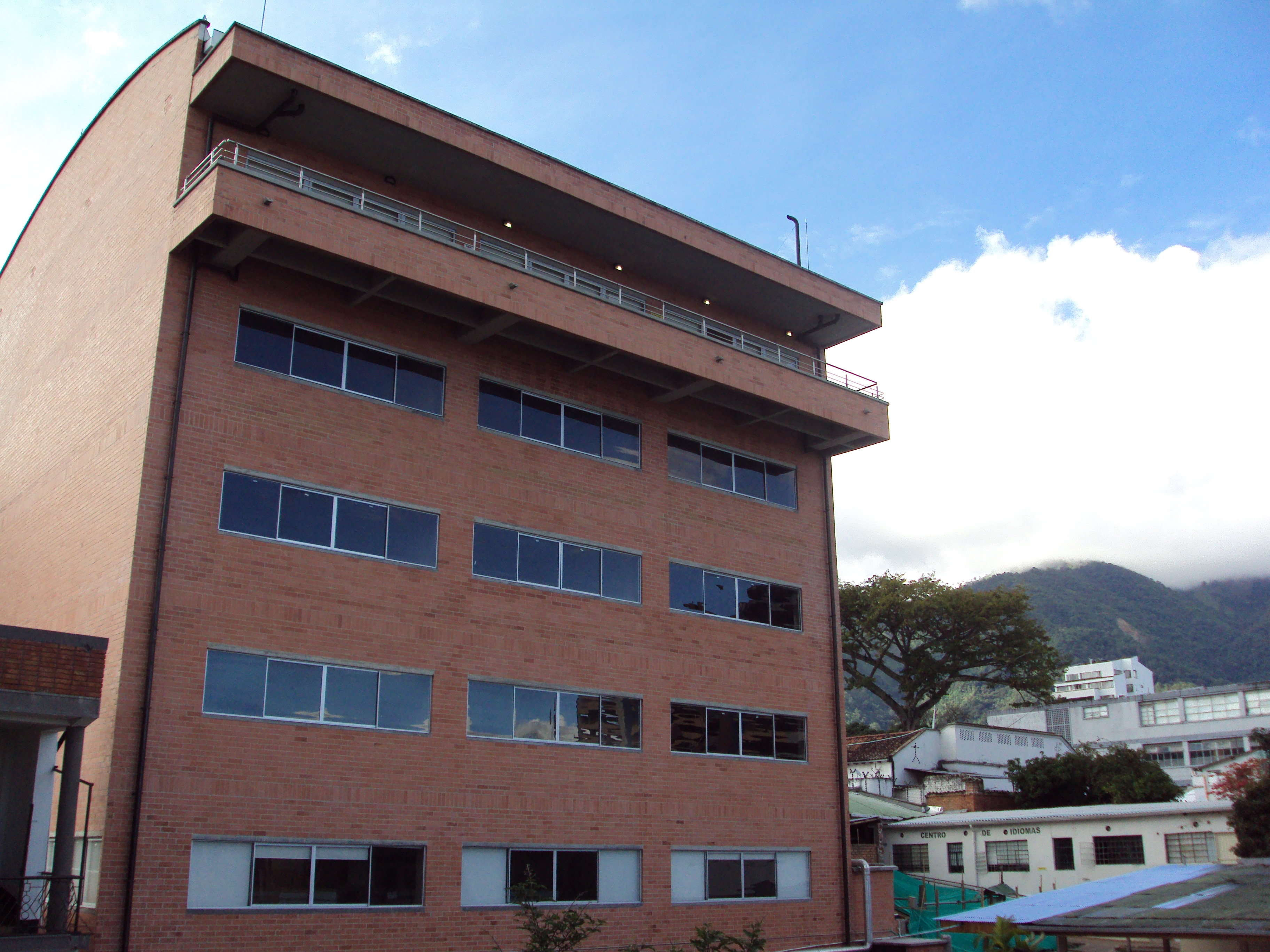 Trabajo Propio